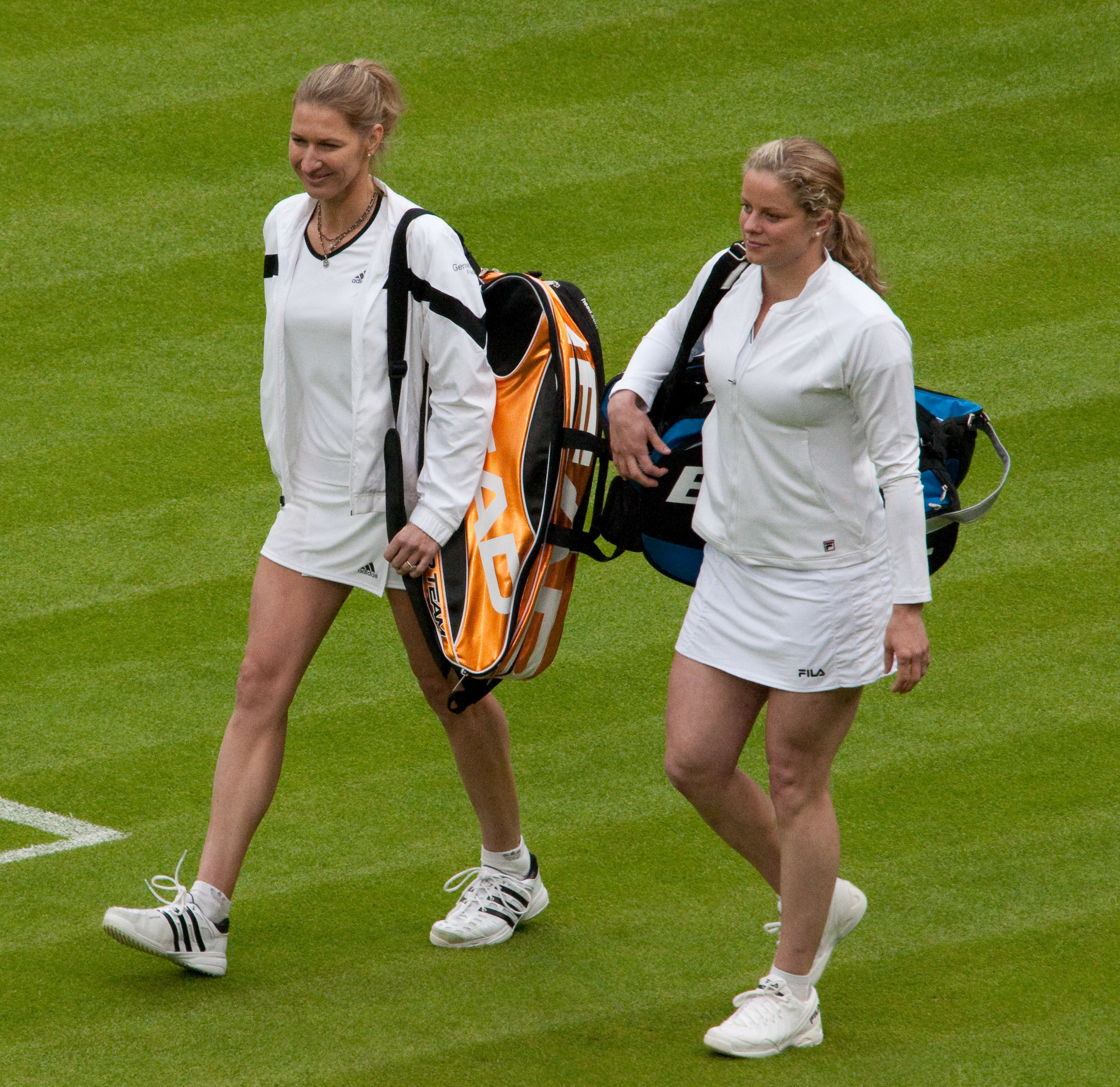 Steffi Graf and Kim Clijsters at the 2009 Wimbledon Roof Test